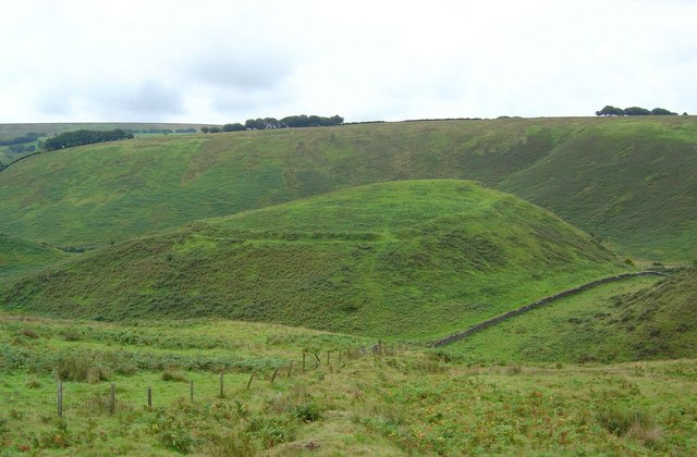 Cow Castle Iron Age fort,Simonsbath,Somerset. Situated on an isolated hill overlooking the confluence of the River Barle with the Whitewater.This oval shaped fort is defended by a single stone rampart enclosing an area of about 3 acres.There are possibly two entrances, one on the south-east side and the other at the north-east.